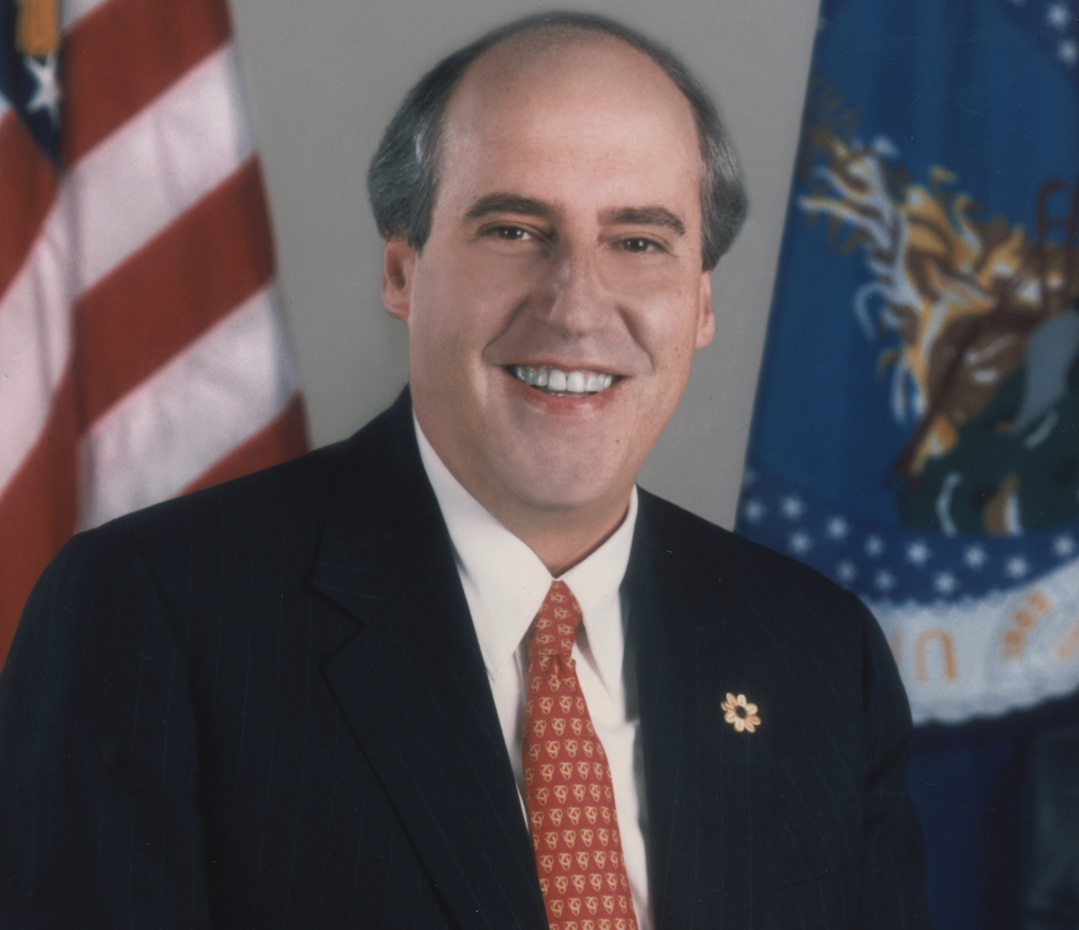 Dan Glickman, 26th Secretary of Agriculture, January 1995 - 2001.